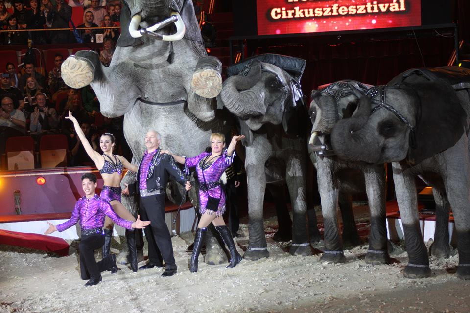 The Casselly Family in 10th International Circus Festival of Budapest.